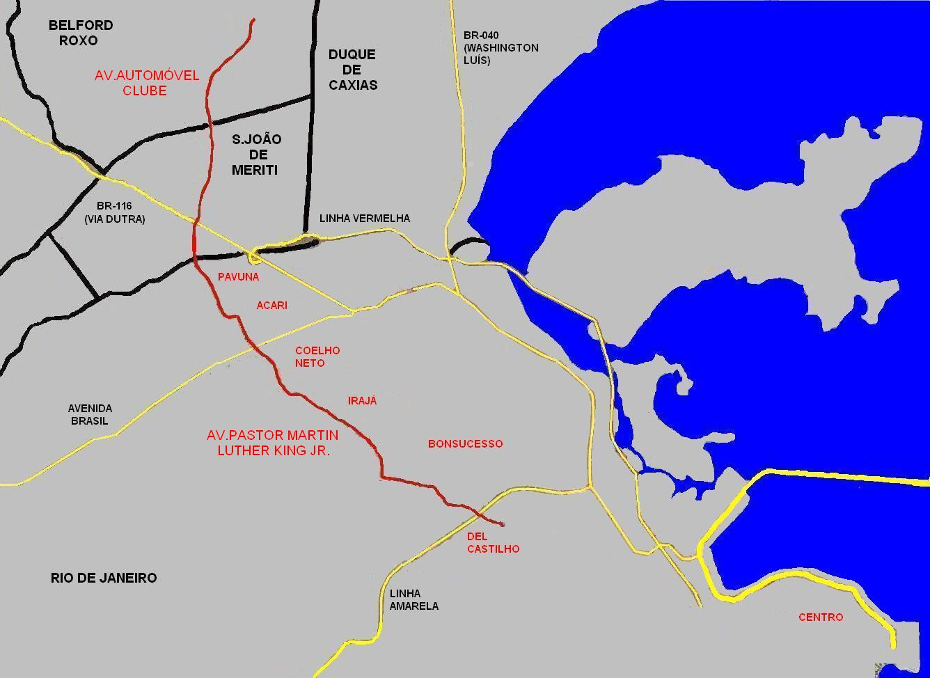 Av.Pastor Martin Luther King Jr./Automóvel Clube - Grande Rio - Brasil